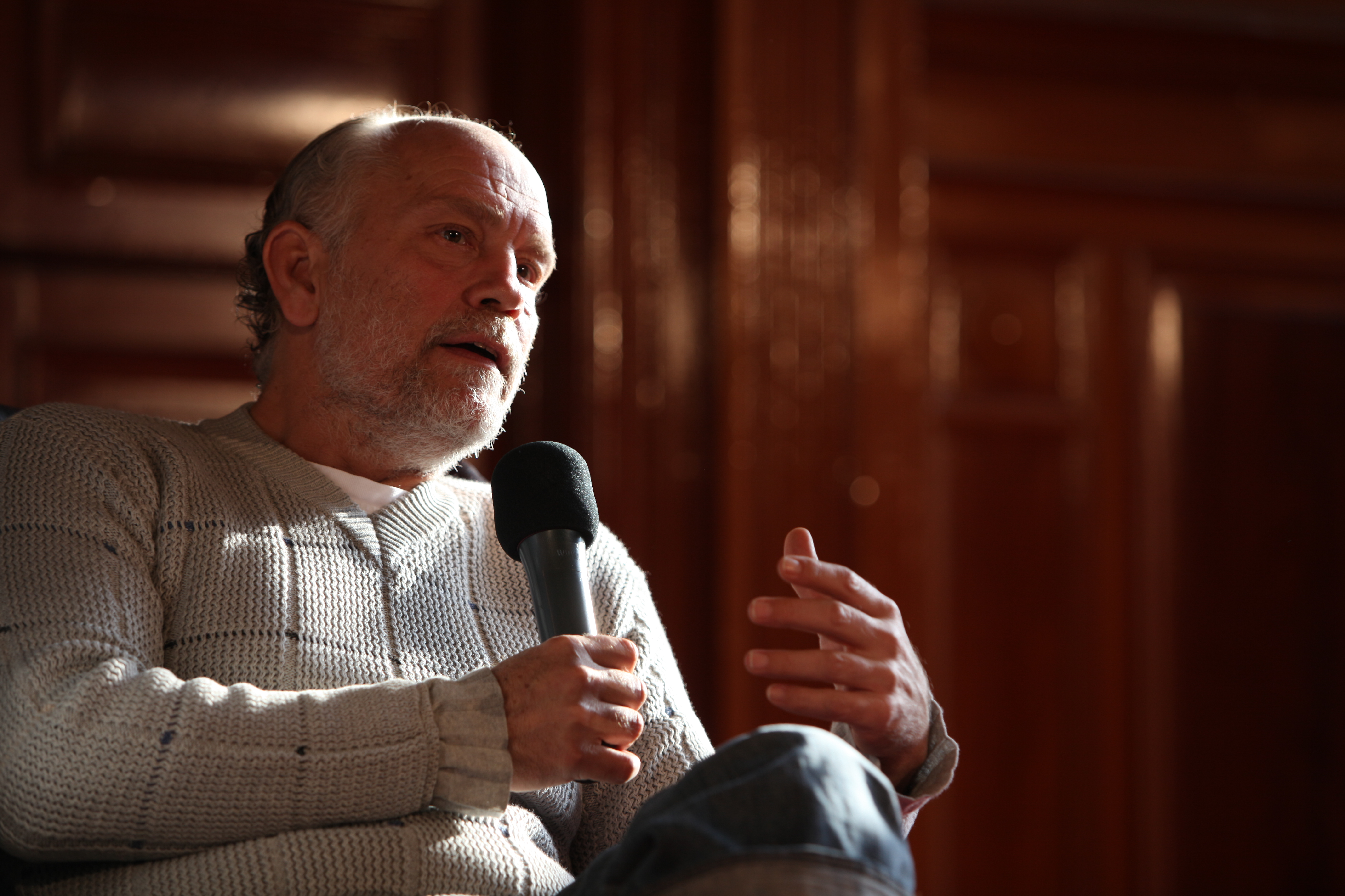 John Malkovich at "Master Class with John Malkovich" at 44th Karlovy Vary International Film Festival